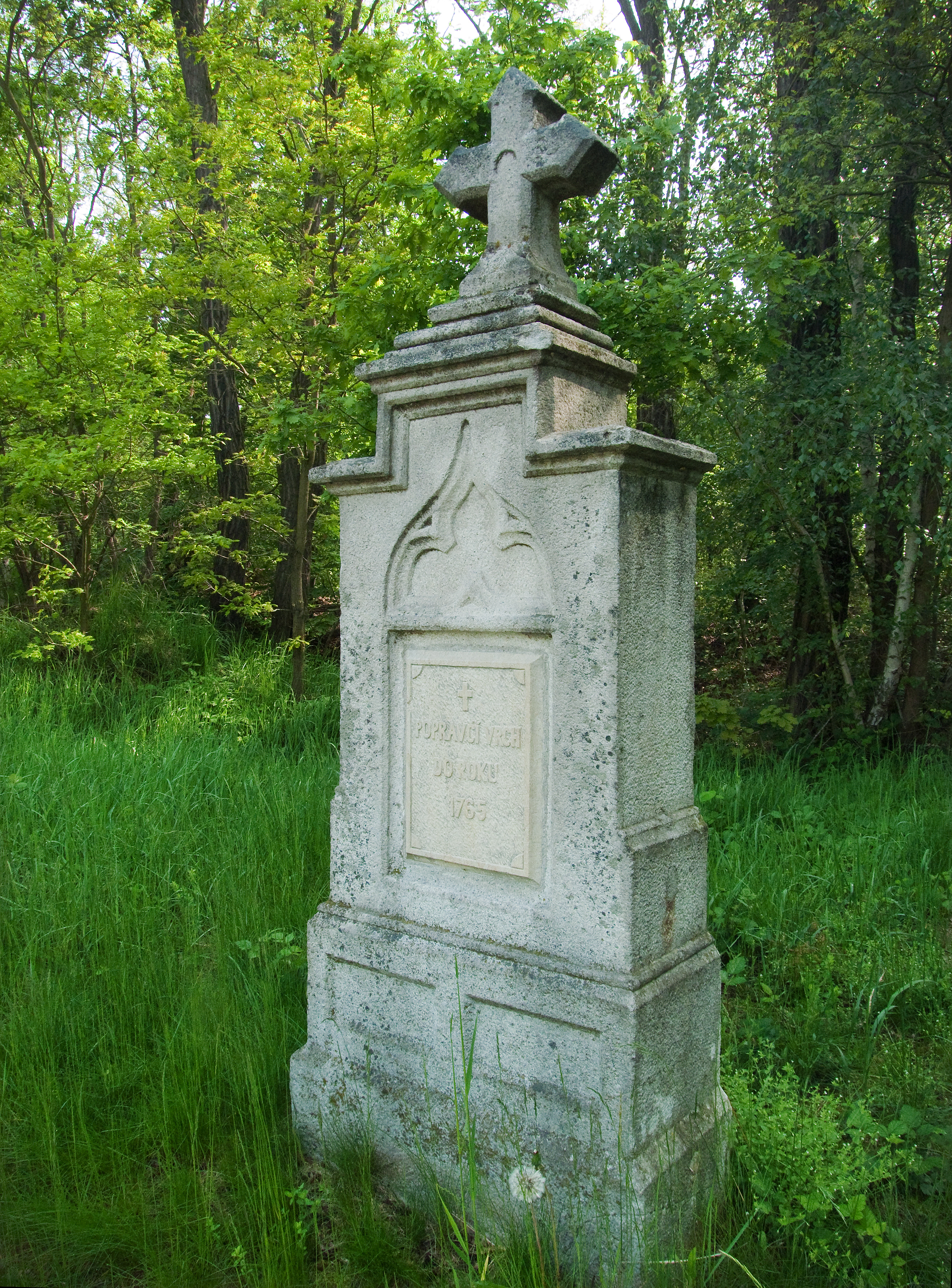 Cross to commemorate the place of execution near Bavorovice, a village near Hluboká nad Vltavou, Czech Republic. It was last used in 1765.